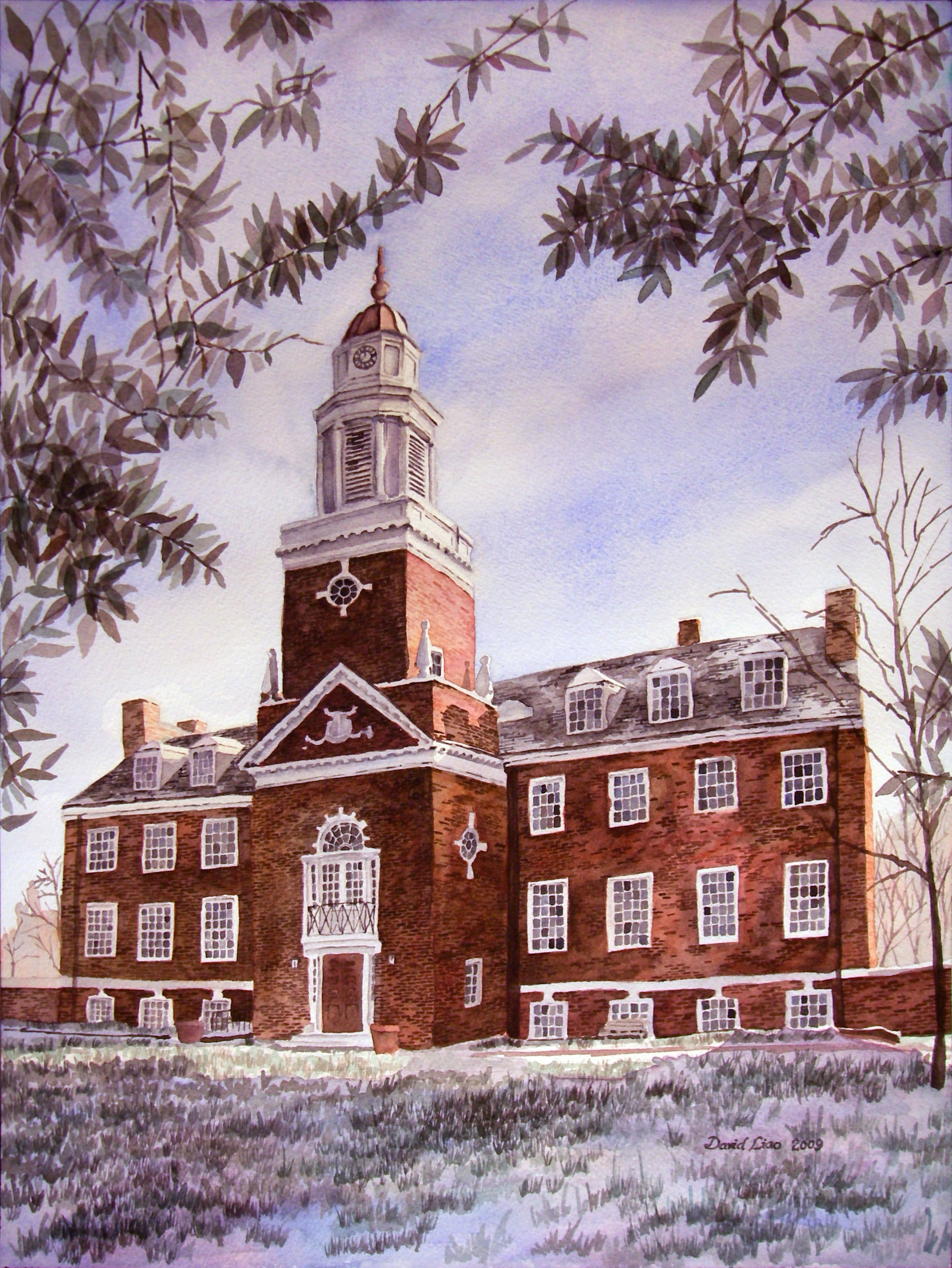 Williamson Hall, Westminster College of the Arts of Rider University. Written permission to publish on Wikipedia secured from Rider University 2009 June 22. Original watercolor © 2009 David Liao. Commissioned by Steven A. Russell of Matawan, NJ. I am licensing this specific upload at this specific resolution. The copyleft licenses below require attribution. Please cite both the artist David Liao and the commissioner Steven A. Russell of Matawan, NJ, when reusing this work.